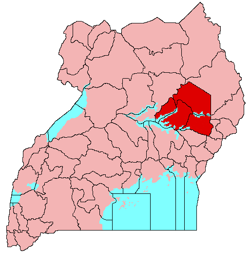 Ugandan sub-region of Teso Created by editing picture